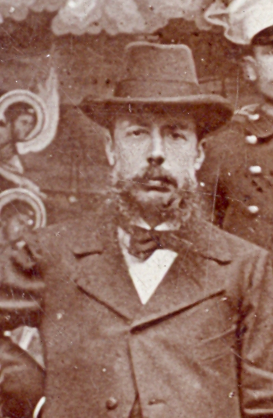 Bulgarian politician Mihail Madzharov (1854-1944). A fragment from a larger photo made in the Rila Monastery. Photo Karastoaynov, 1896